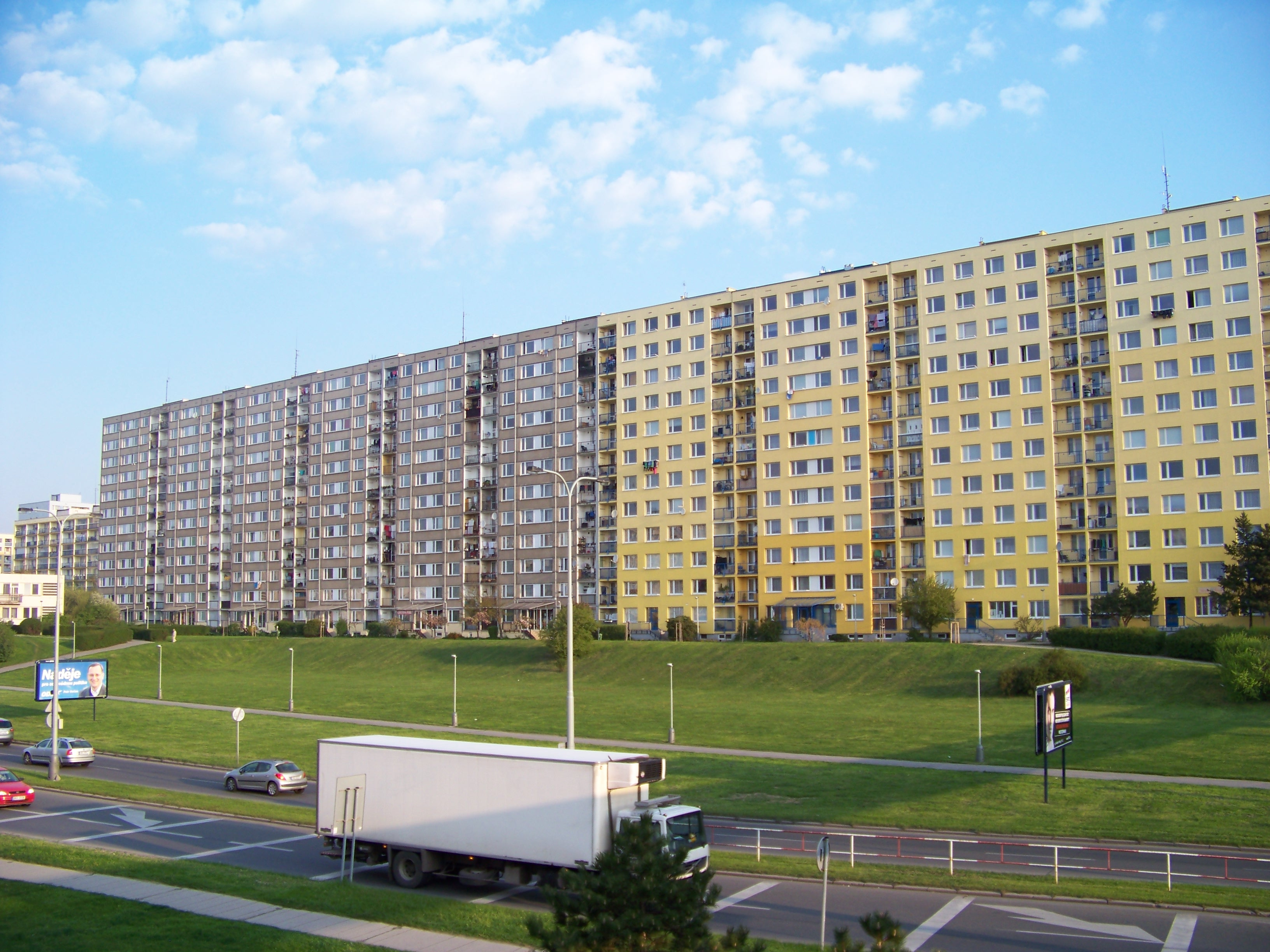 Chodov, Prague, the Czech Republic. Opatov Housing Estate, Opatovská street.